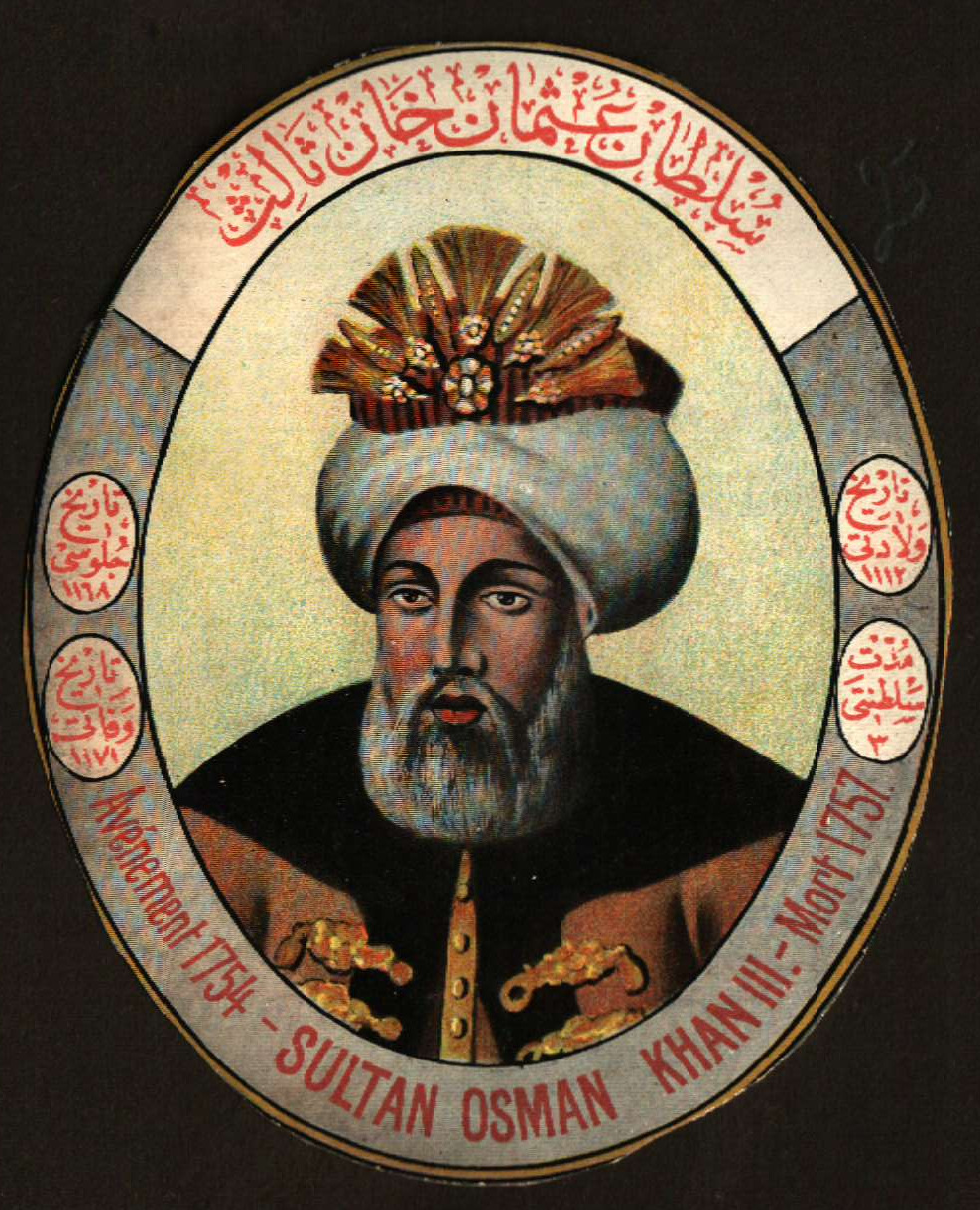 Osman III